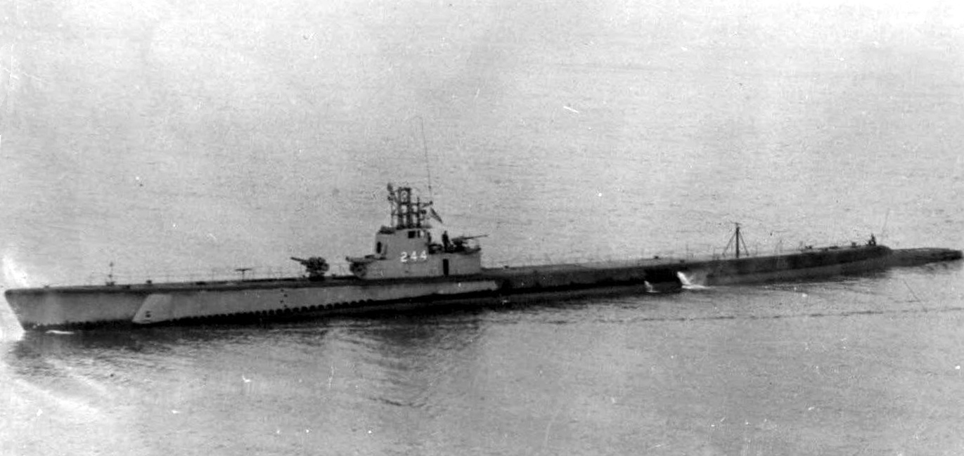 A military submarine marked "244" is sailing on the surface in calm waters